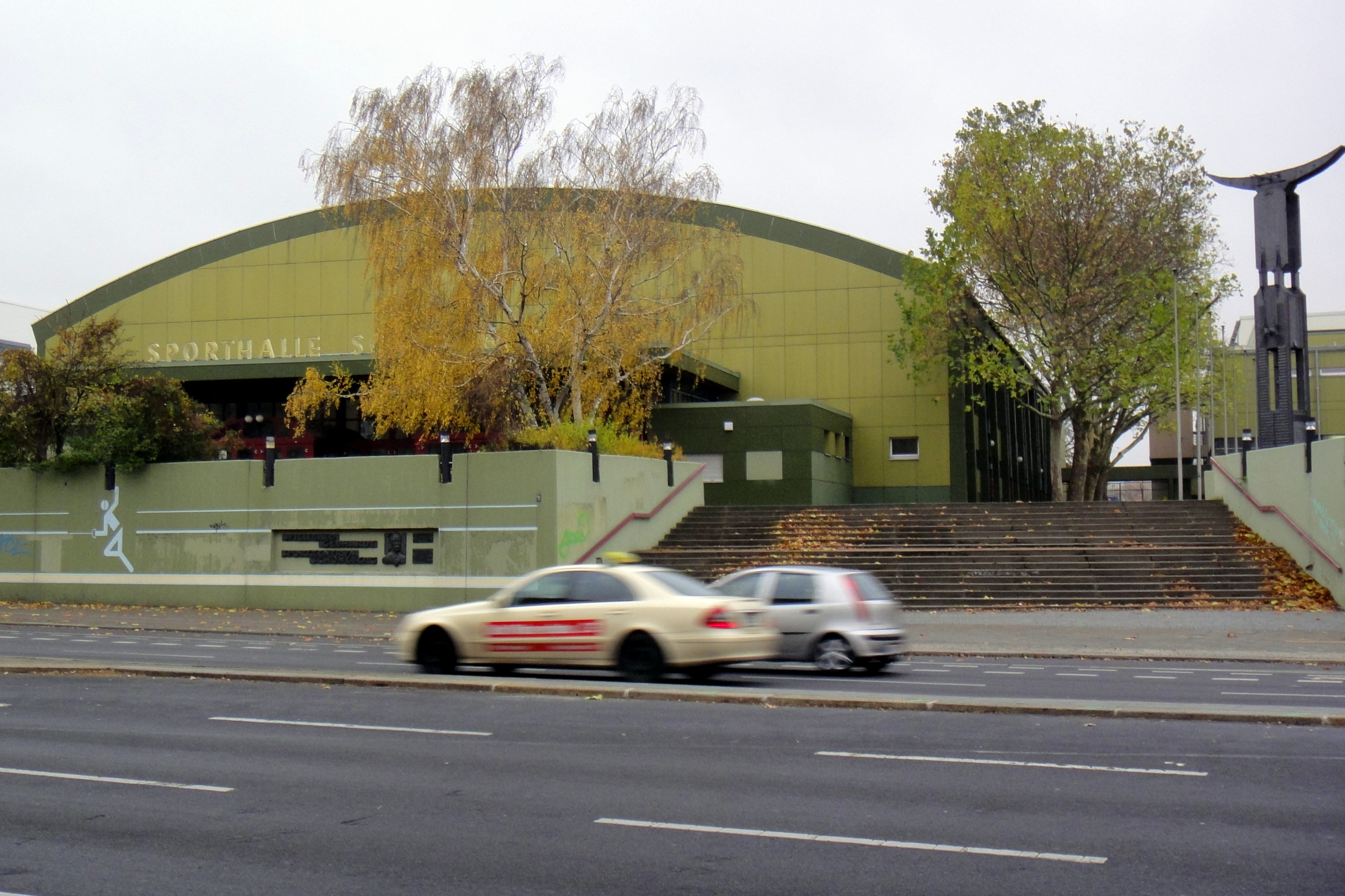 Sports center, Berlin-Schöneberg